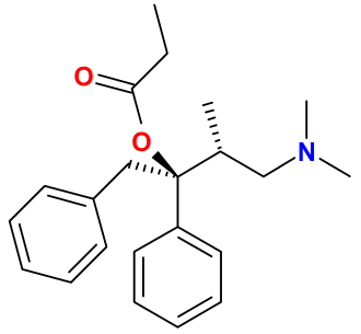 Molecular structure of dextropropoxyphene